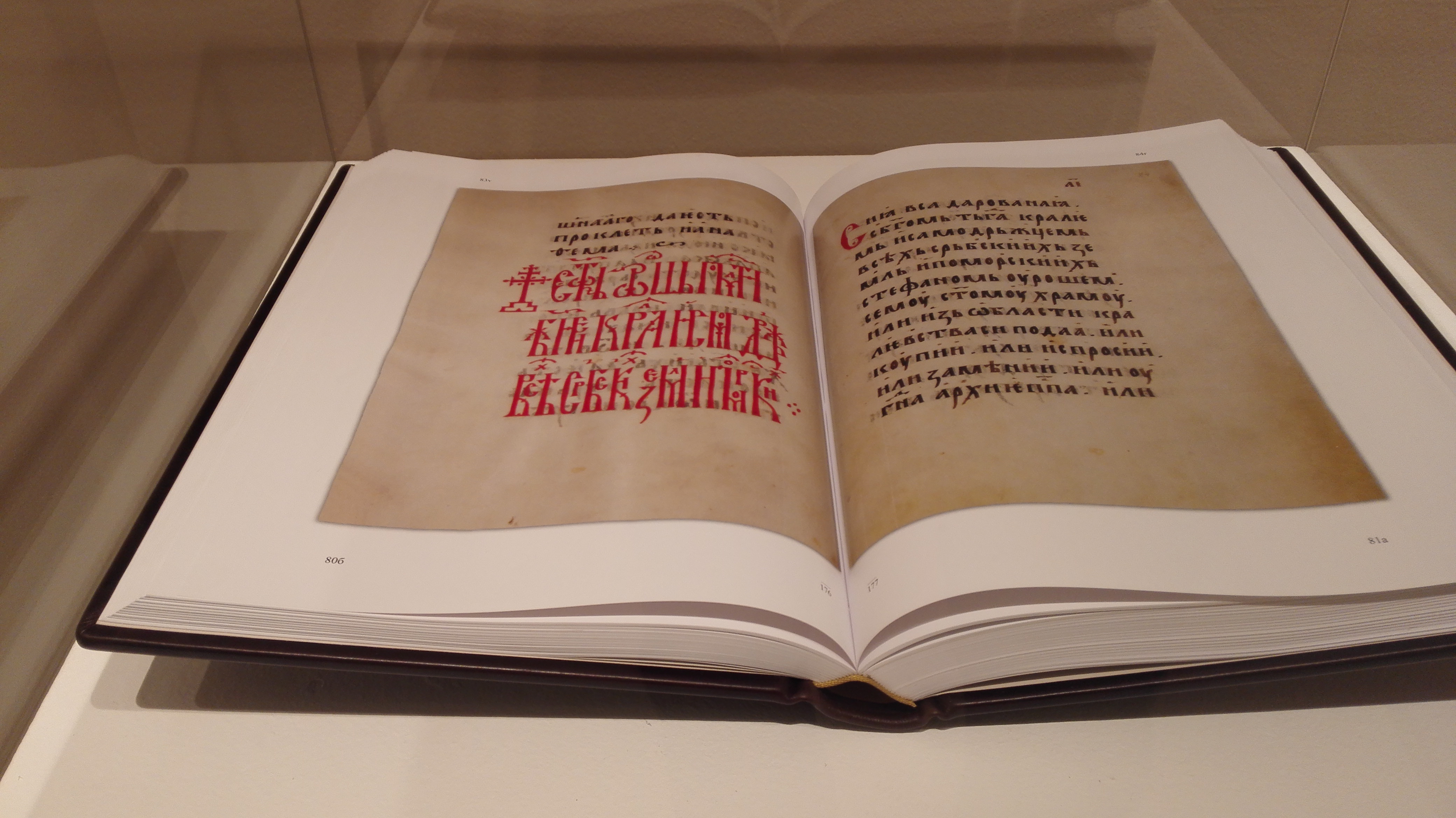 Chrysobull of the monastery of St. Stephen in Banjska, Banjska monastery, 1314-1316, 1317, phototype edition. The original manuscript is in Istanbul, Topkapi Palace Museum (Topkapy Sarayi Muzesi, Gayri islami kitapligi)